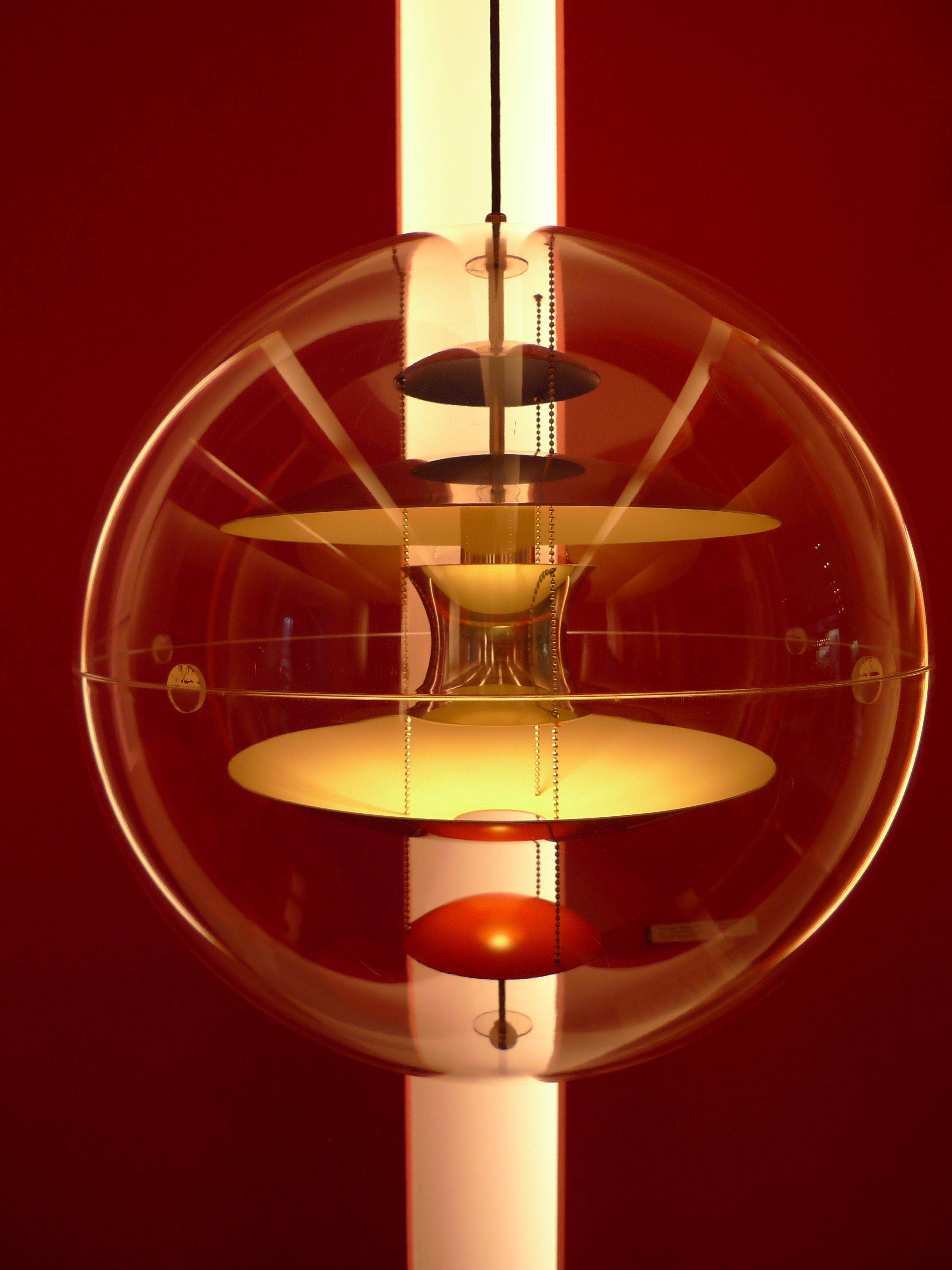 The Globe lamp by Danish designer Verner Panton, photographed at the Danish Museum for Art and Design in Copenhagen